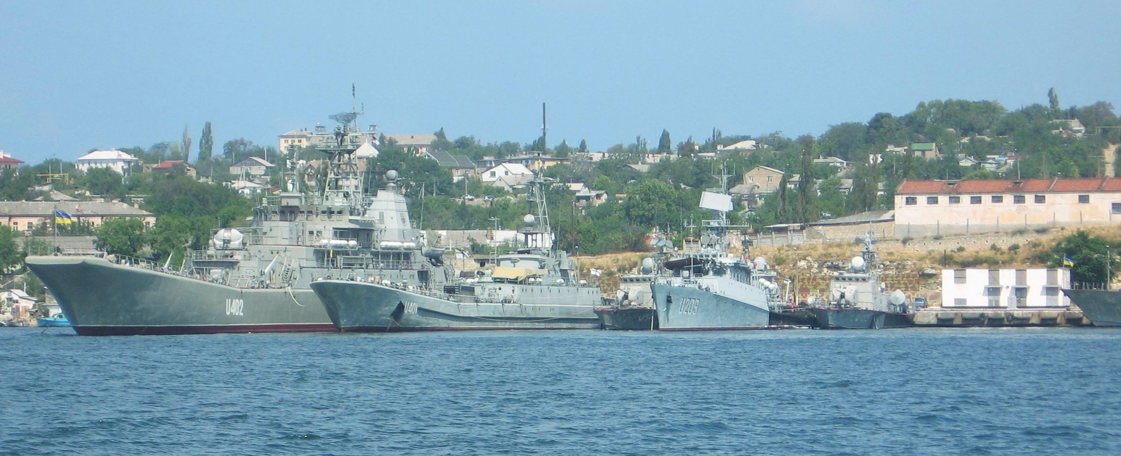 Naval ships of Ukraine in Sevastopol. Almost of them originally belonged to Soviet Navy and were transferred to Ukrainian Navy after the break-up of the Soviet Union in 1991. From the left; Project 775 large landing ship U402 Kostiantyn Ol'shans'kyi (ex-Konstantin Ol'shanskiy) Project 773 midium landing ship U401 Kirovohrad (ex-DSK-137) Project 206MR "Vikhr'" missile boat U154 Kakhovka (ex-R-265) Project 1124M "Al'batros" anti-submarine corvette U209 Ternopil' (Ukrainian original ship) Project 206MR "Vikhr'" missile boat U153 Pryluky (ex-R-262)